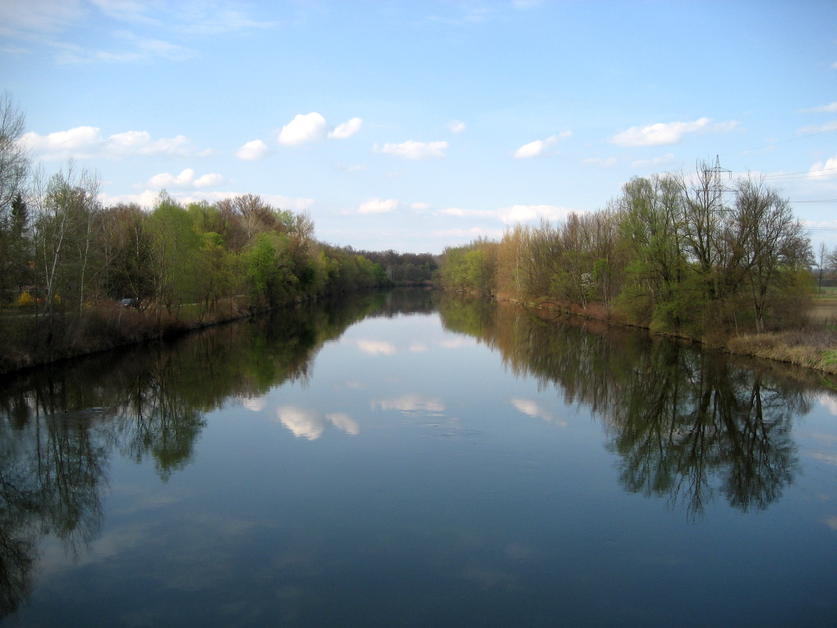 Mur in Styria,Austria, Europe